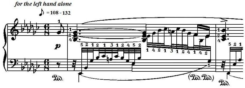 Leopold Godowsky Studies on Chopin's Etudes No. 13 (Op. 10 No. 6) for the left hand alone, opening